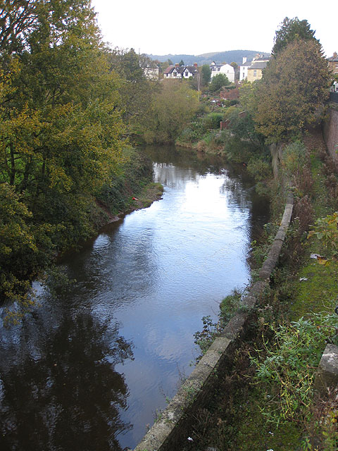 Upstream view of the River Monnow Looking down from Priory Street.